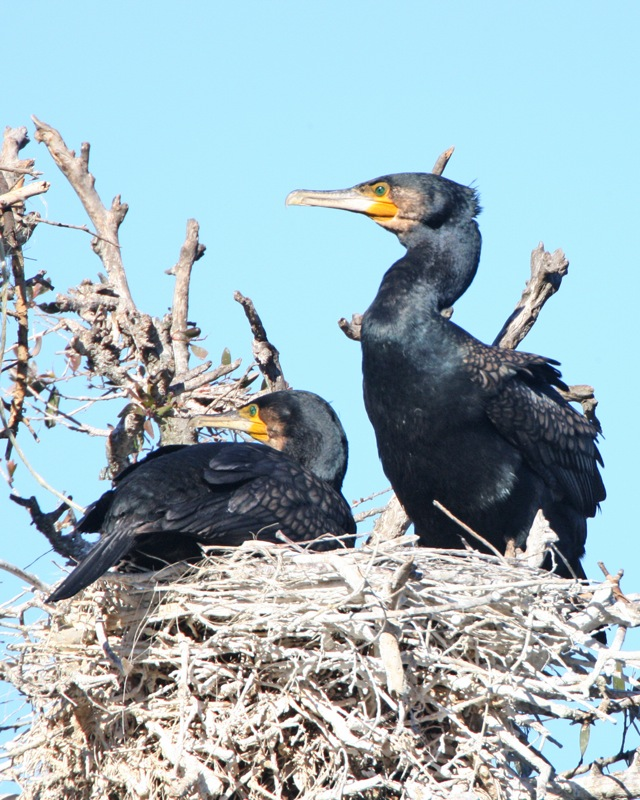 Great Cormorant Phalacrocorax carbo Centiennal Park, Sydney, NSW, Australia 9th. August 2008 690V9531